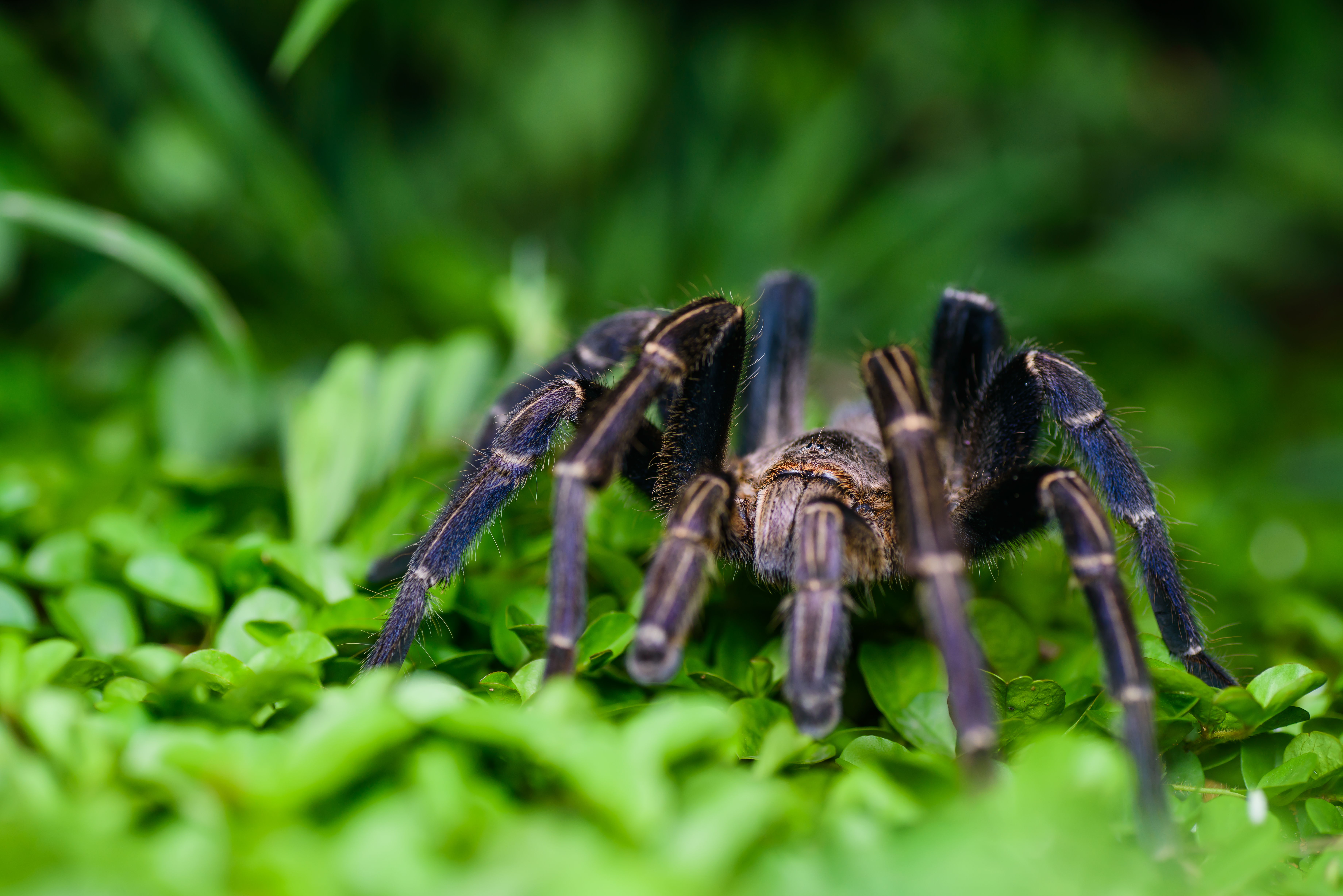 This photo is published under Creative Commons Attribution-Share-Alike Licence, means you are free to use this photo with attribution under same licence. For credits, please use following; Owner: Thai National Parks Link